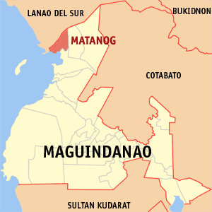 Map of the Maguindanao showing the location of Matanog